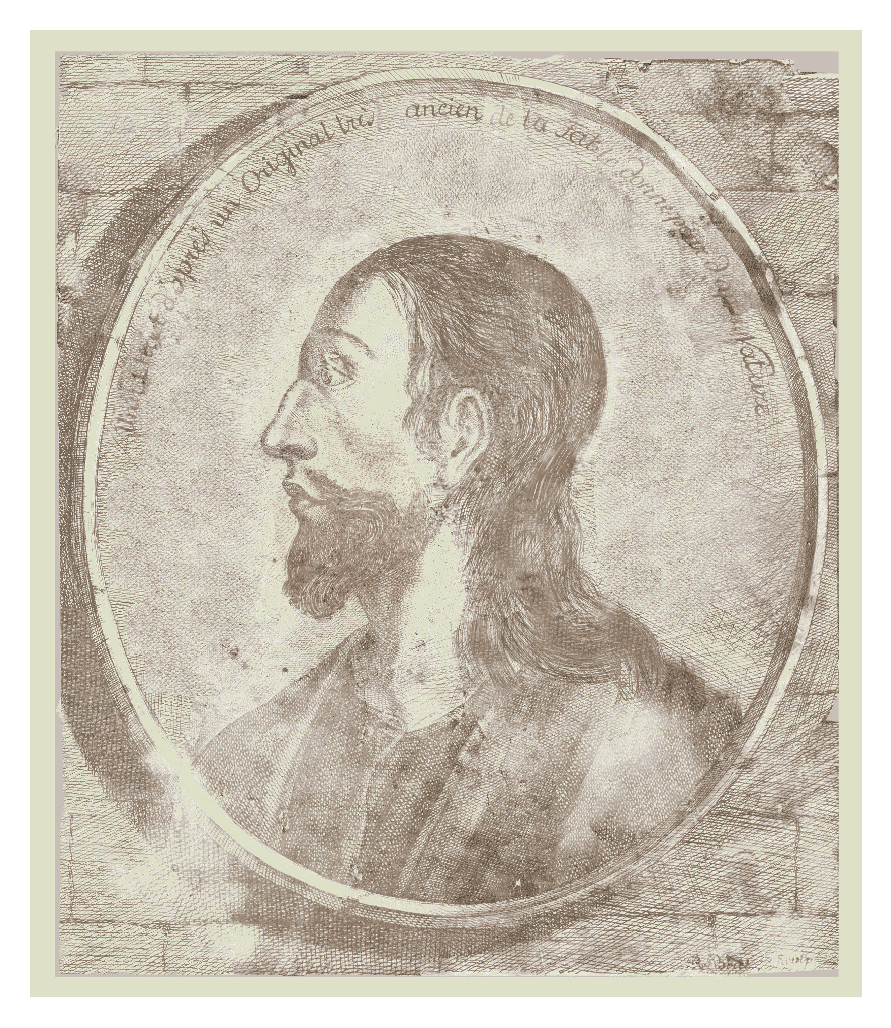 Unknow artist from circle of French Rationalists. Jesus Christ. XVII c. Engraving. Cabinet of D. I. Mendeleyev. Museum-archive of D. I. Mendeleev (S-Pb State Univergity). Reconstruction by A. M. Schultz (Serge Lachinov). 1973-2003